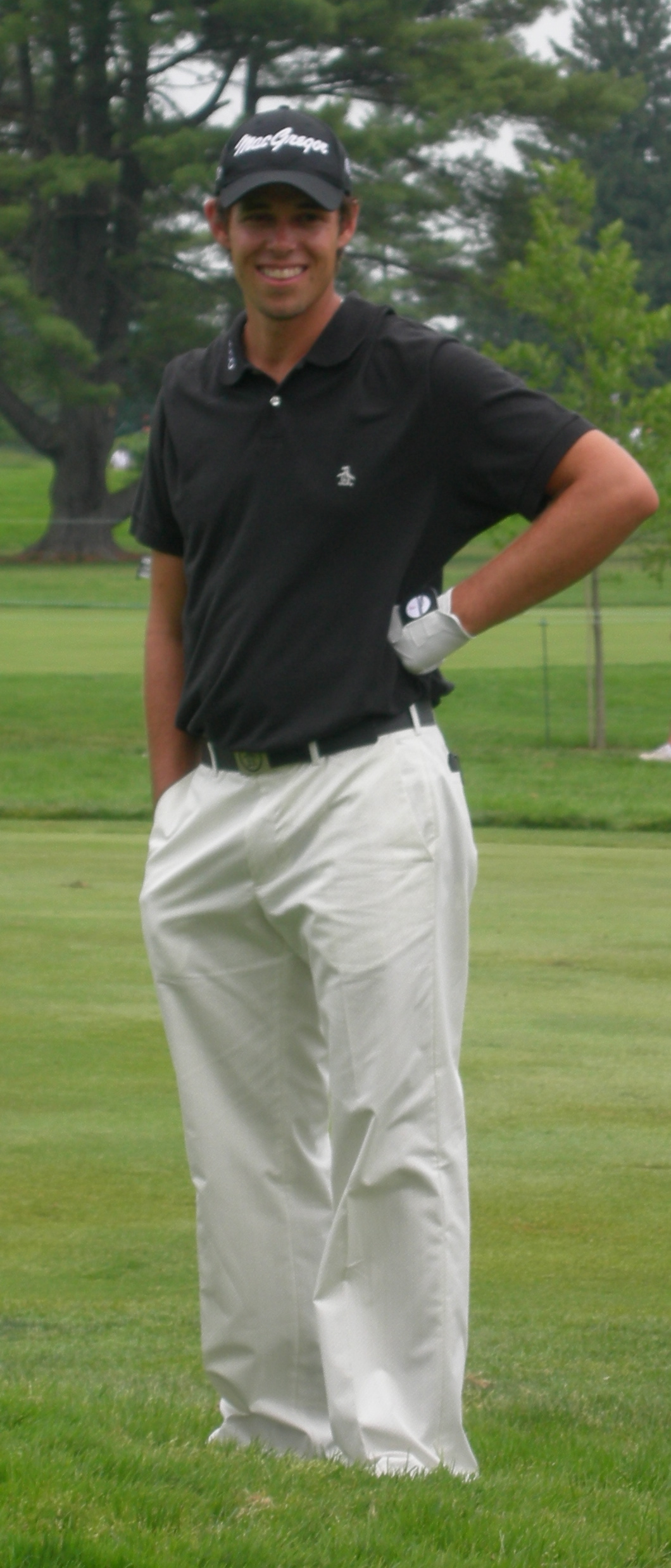 Aaron Baddeley waiting to hit his second shot on the 4th hole of the Congressional Country Club during the Earl Woods Memorial Pro-Am prior to the 2007 AT&T National tournament.